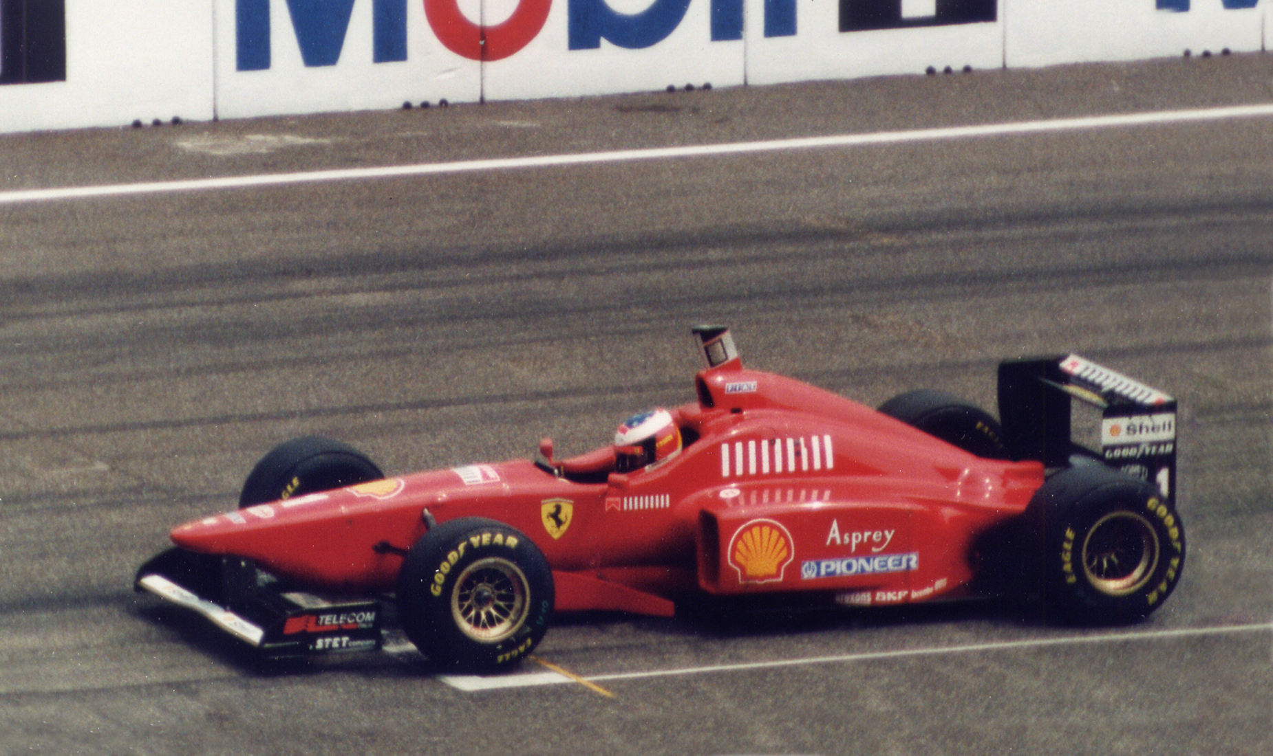 Ferrari F310 (high nose), Michael Schumacher, German Grand Prix 1996 (Free Practice)